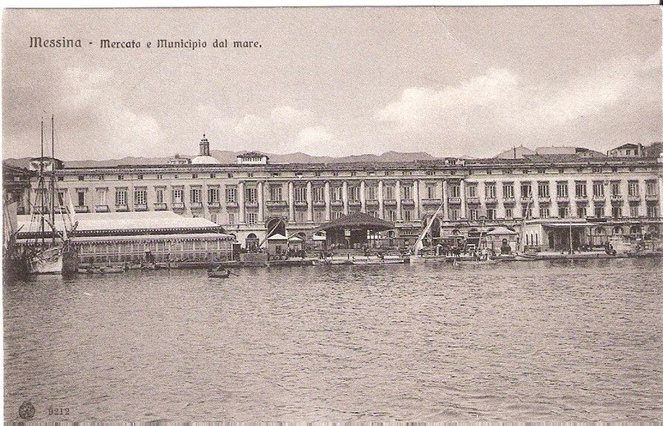 Palazzo municipale